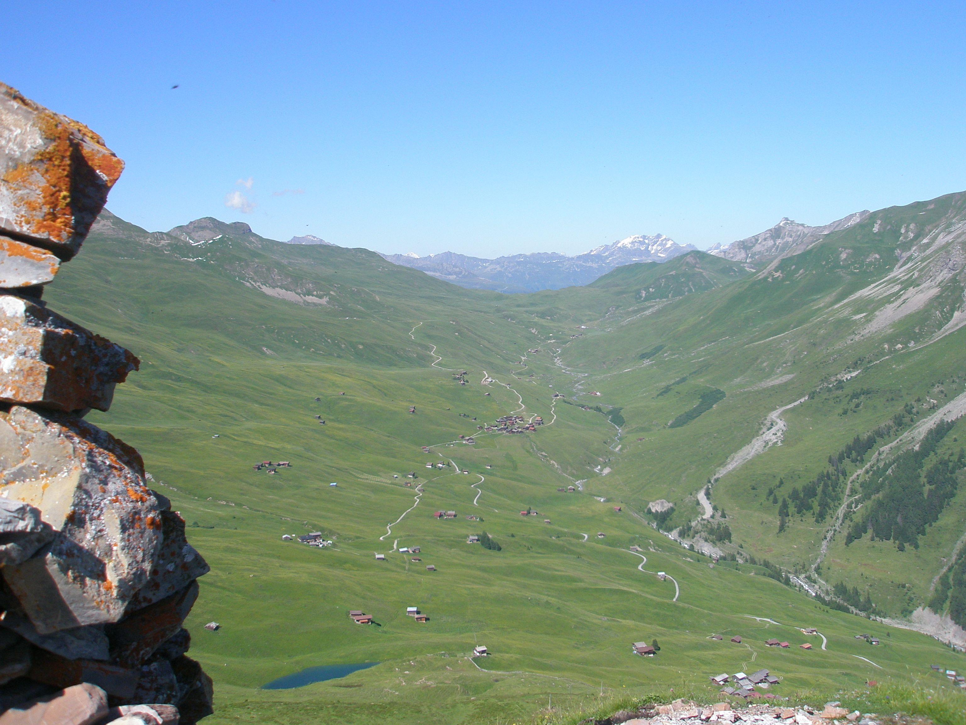 Fondei at Langwies/Switzerland